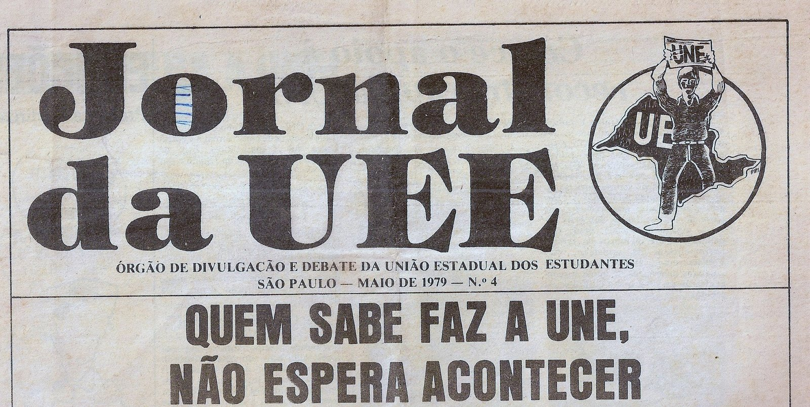 Jornal UEE-SP